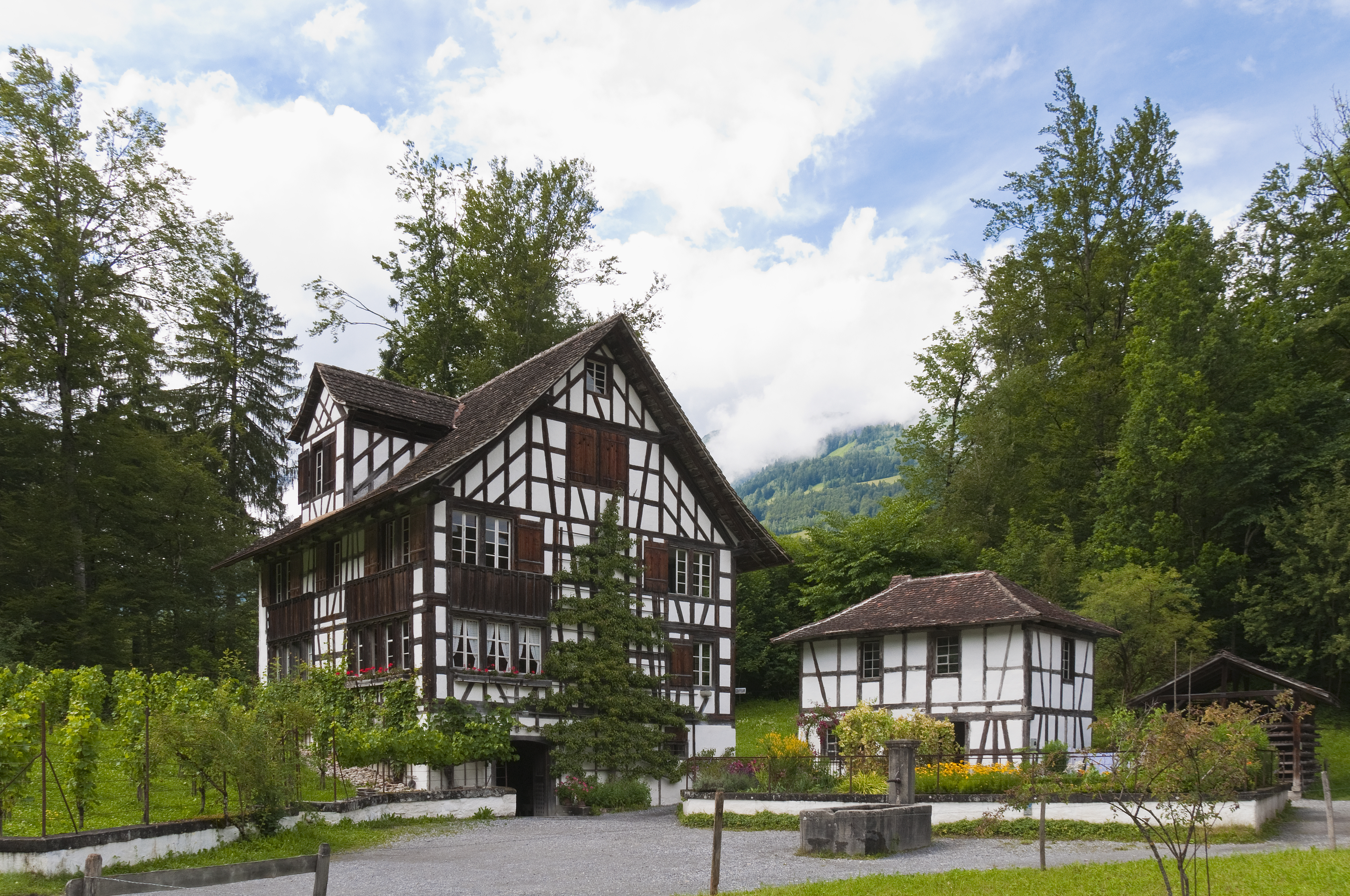 Swiss Open-Air Museum Ballenberg – Vintner’s House, Richterswil (1780) and Public Laundry, Rüschlikon (1750-1800)